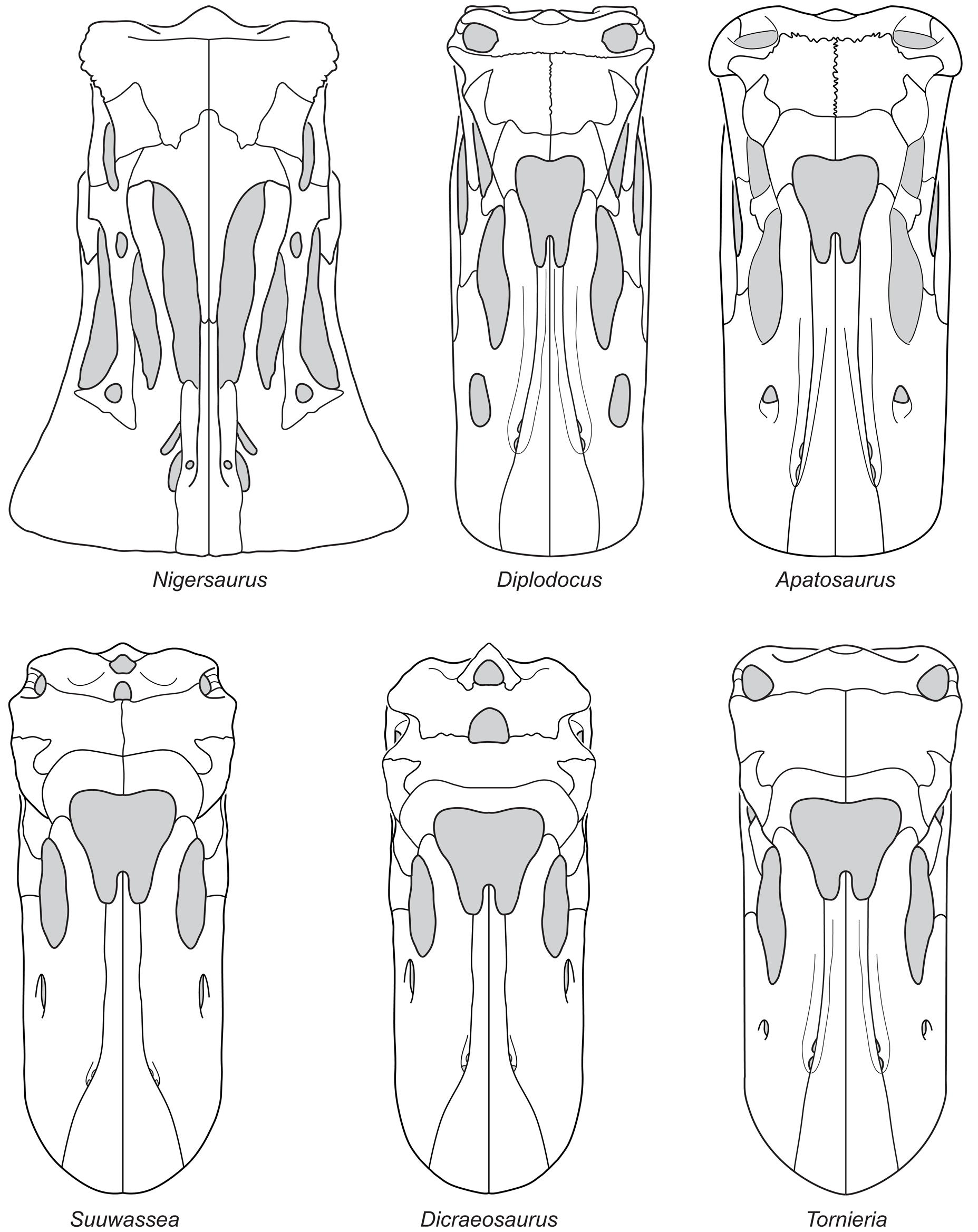 Reconstructions of diplodocoid skulls used in this analysis. Reconstructions of Nigersaurus and Diplodocus modified from [10] and [34], respectively. All other reconstructions based on material listed in Table S1. Skulls scaled to equivalent anteroposterior lengths.